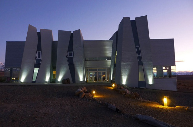 Arquitectura de Glaciarium, centro de interpretación de de hielo y glaciares, en el Calafate, Argentina. Sus líneas modernas remiten a la estética glaciaria.